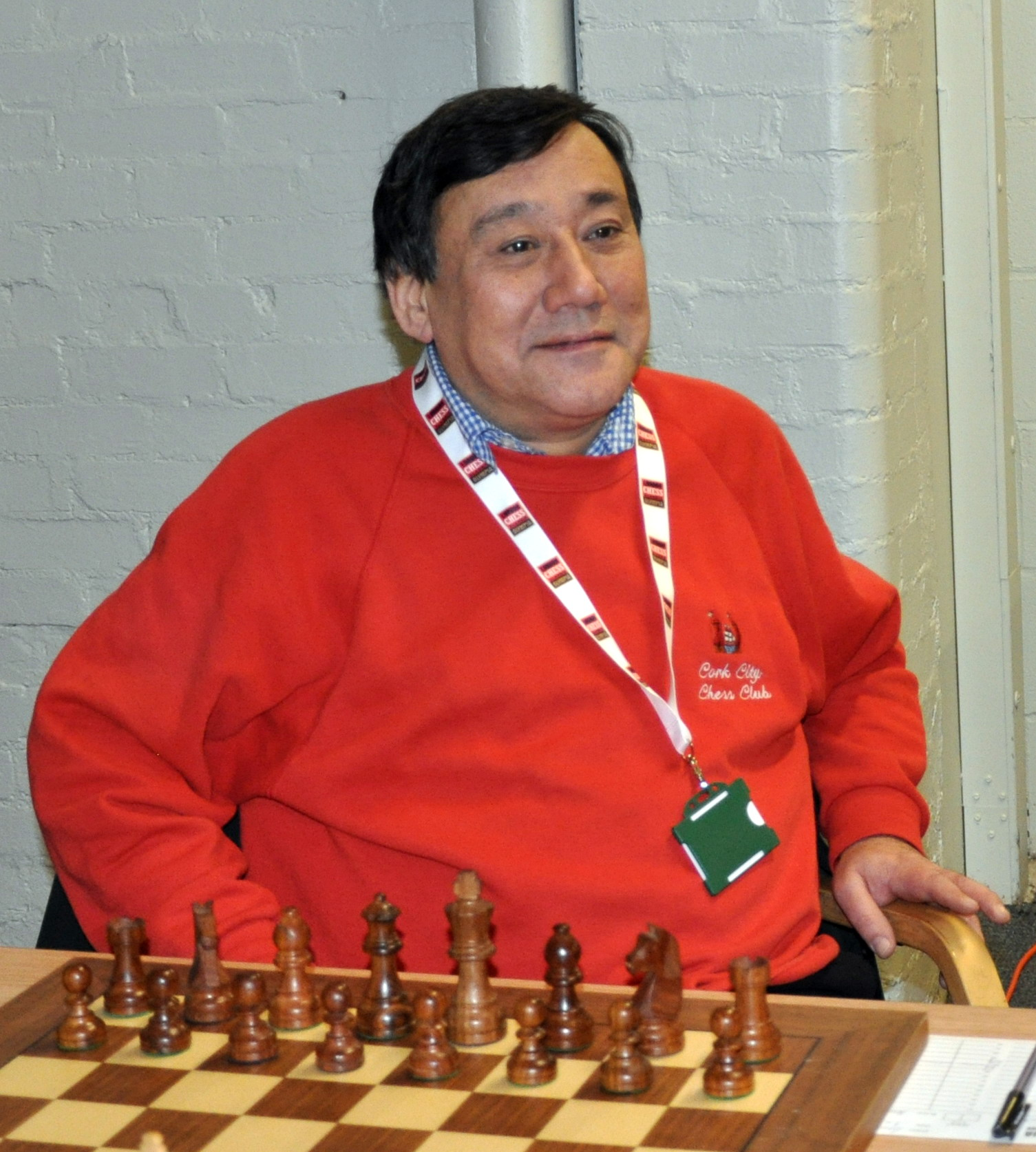 Mark Hebden - London Chess Classic 2010